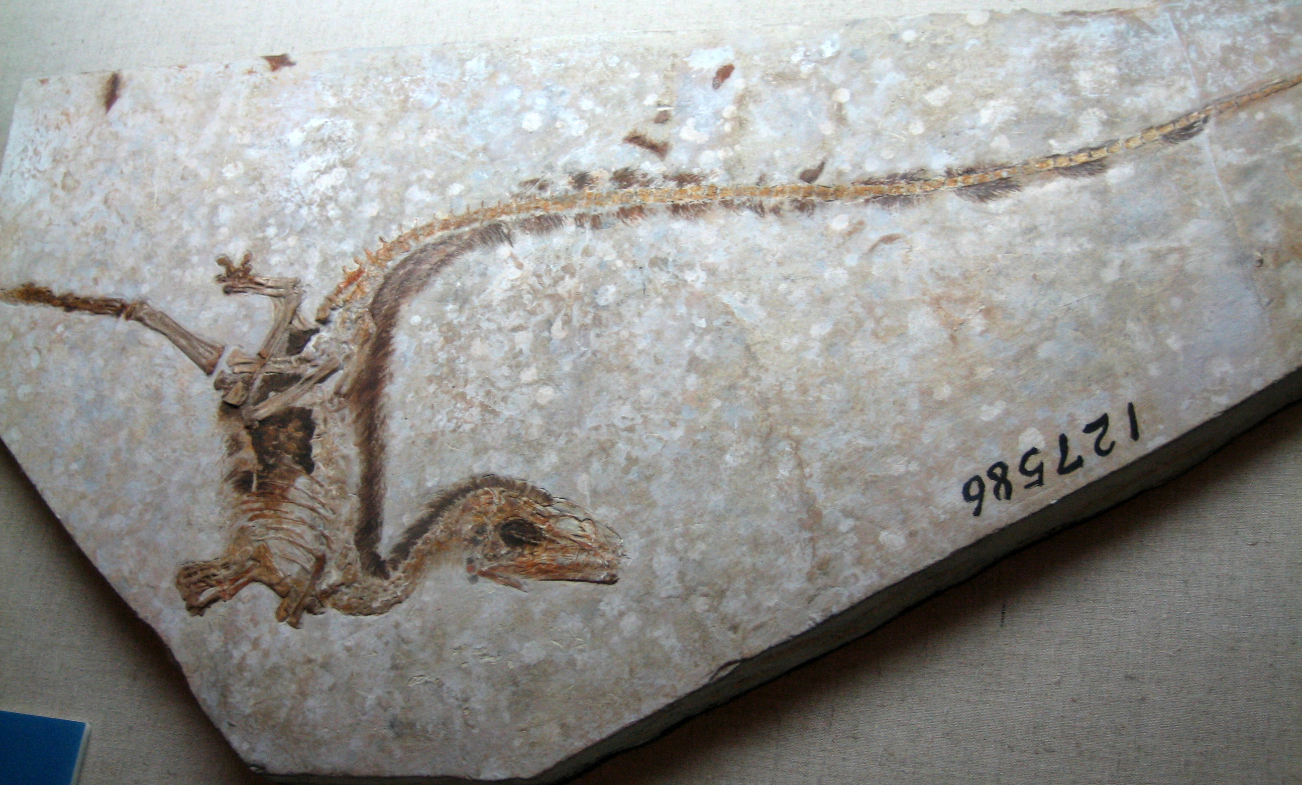 Sinosauropteryx fossil, from our trip to Hohhot, Inner Mongolia, China for National Day Holiday 2007. This is the Inner Mongolia Museum, the biggest museum in the region.